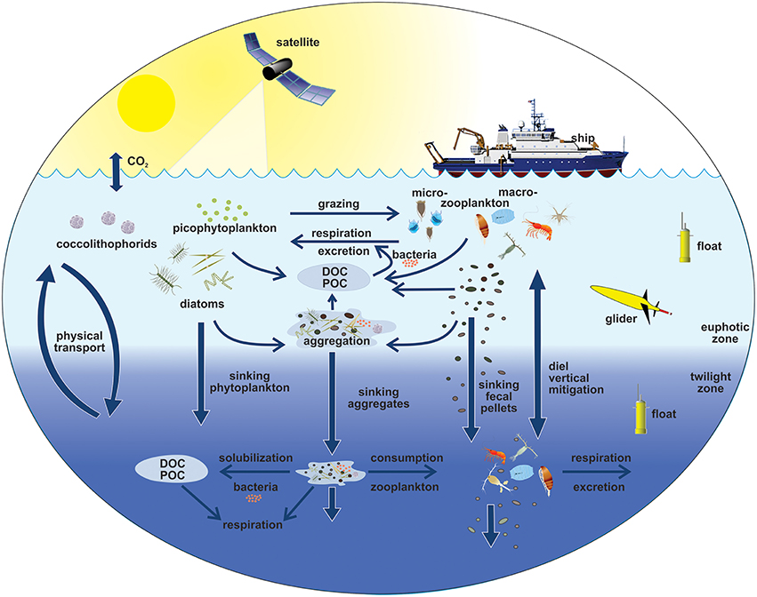 Export Processes in the Ocean from Remote Sensing. The EXPORTS conceptual diagram illustrates the links among the ocean's biological pump and pelagic food web and our ability to sample these components from ships, satellites, and autonomous vehicles. Light blue waters are the euphotic zone (EZ), while the darker blue waters represent the twilight zone (TZ). Figure is adapted from Steinberg (in prep.) and the U.S. Joint Global Ocean Flux Study (JGOFS) (